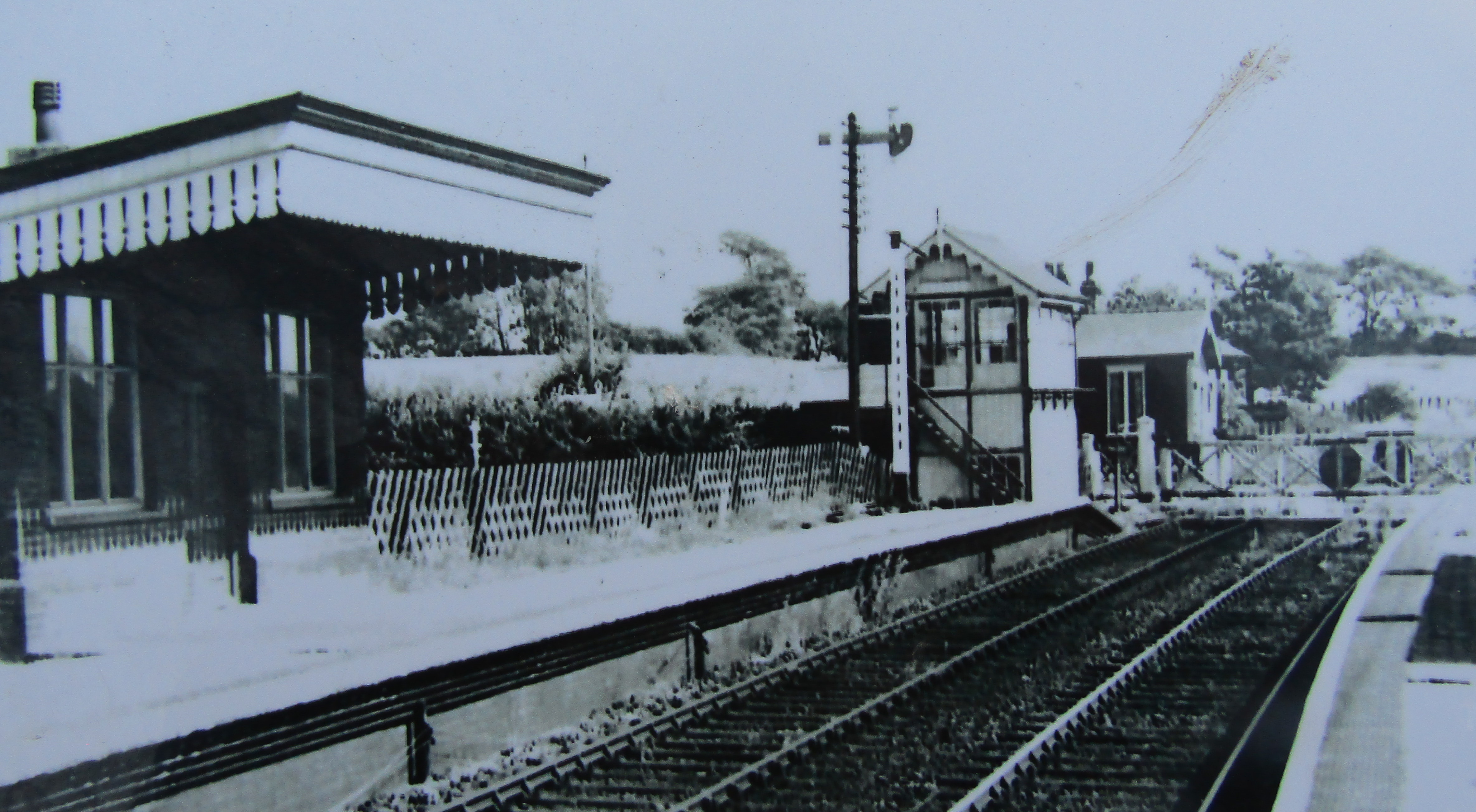 A 1901 photograph of Honing railway station on the Norfolk and Suffolk Joint Railway within the parish of Honing, Norfolk, United Kingdom.